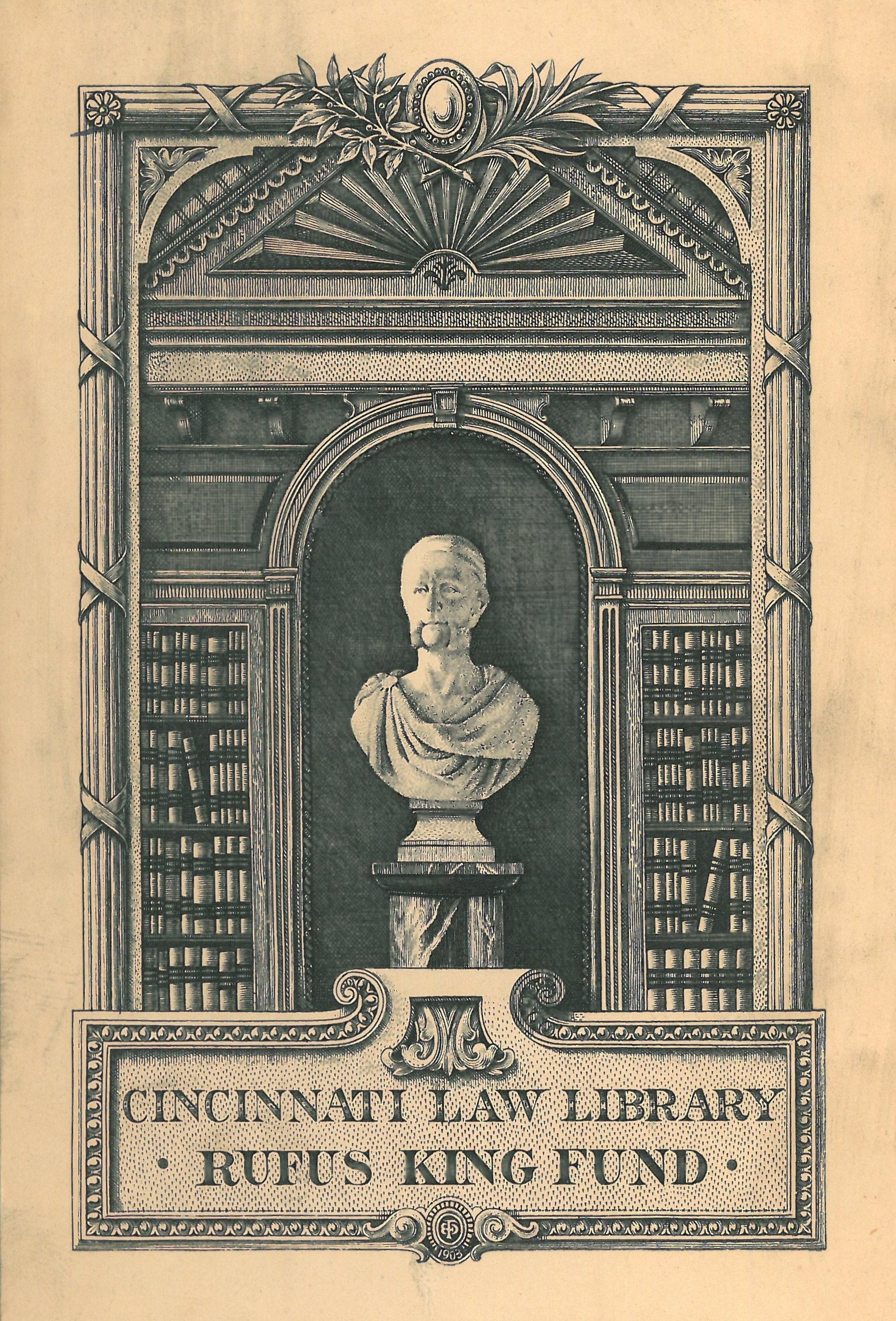 The bookplate of Arthur Annesley, 1st Earl of Anglesey (1702) The Privileges of the House of Lords and Commons Argued and Stated, in Two Conferences between both Houses. April 19, and 22, 1671. To which is Added a Discourse, wherein the Rights of the House of Lords are Truly Asserted. With Learned Remarks on the Seeming Arguments, and Pretended Precedents, Offered at that Time against their Lordships. Written by the Right Honourable Arthur, Earl of Anglesey, late Lord Privy-Seal, London: Printed and sold by J. Nutt, near Stationers-Hall OCLC: 642442297. The book was thus previously owned by the Cincinnati Law Library. The bookplate features a bust of Rufus King (30 May 1817 – 25 March 1891) in a niche surrounded by bookshelves. King was the President of the University of Cincinnati from 1860 to 1869, and the Dean of the Cincinnati Law School (now the University of Cincinnati College of Law) from 1875 to 1880.